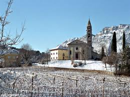 Lasino (Italy): church of Saint Peter.